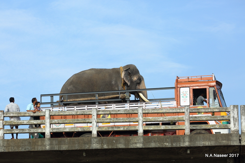 Captive Elephants of Kerala, Cruelty against elephants, Aanapremam, Thrissur Pooram, Festivals of Kerala, Elephants in captivity, Temples of Kerala